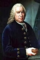 portrait of Giorgio Baffo, Venetian poet (1694 - 1768)